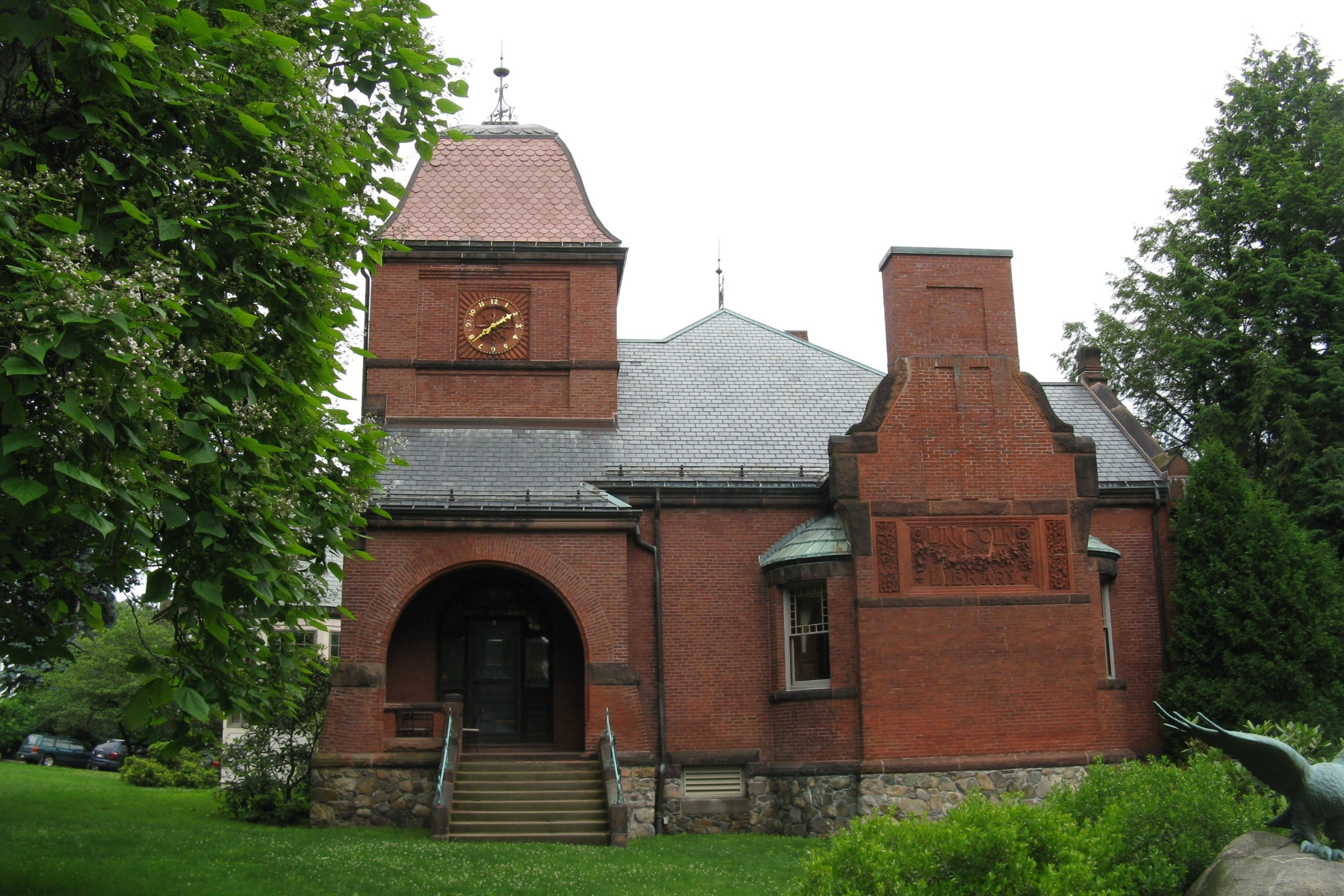 Lincoln Public Library, Lincoln Massachusetts